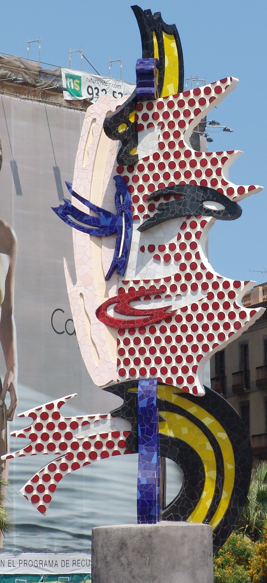 Roy Lichtenstein: The Head, Barcelona